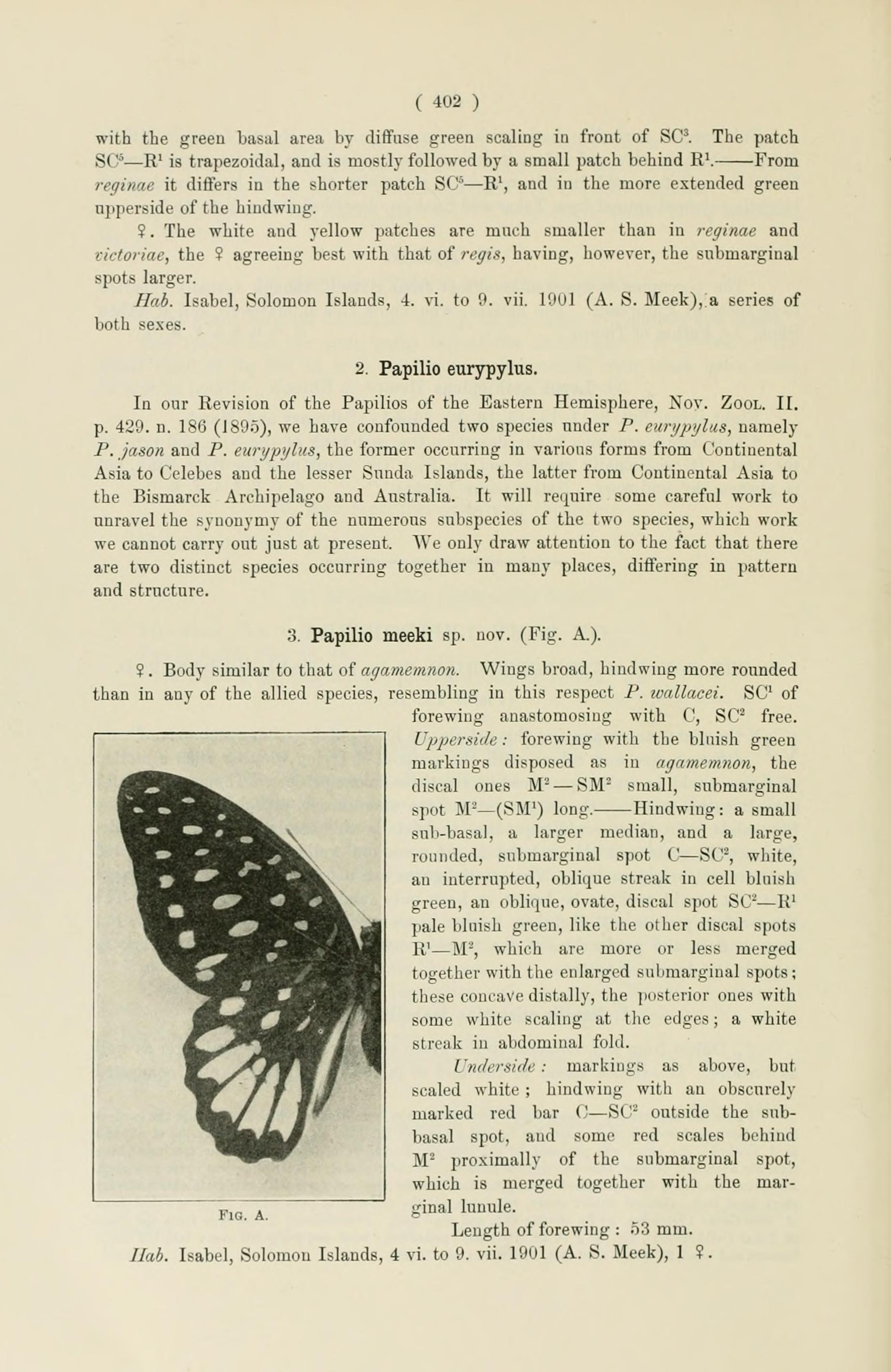 Novitates Zoologicae, vol. 8, page 402 - with original description of « Papilio meeki » = Graphium meeki (Meek's Graphium)